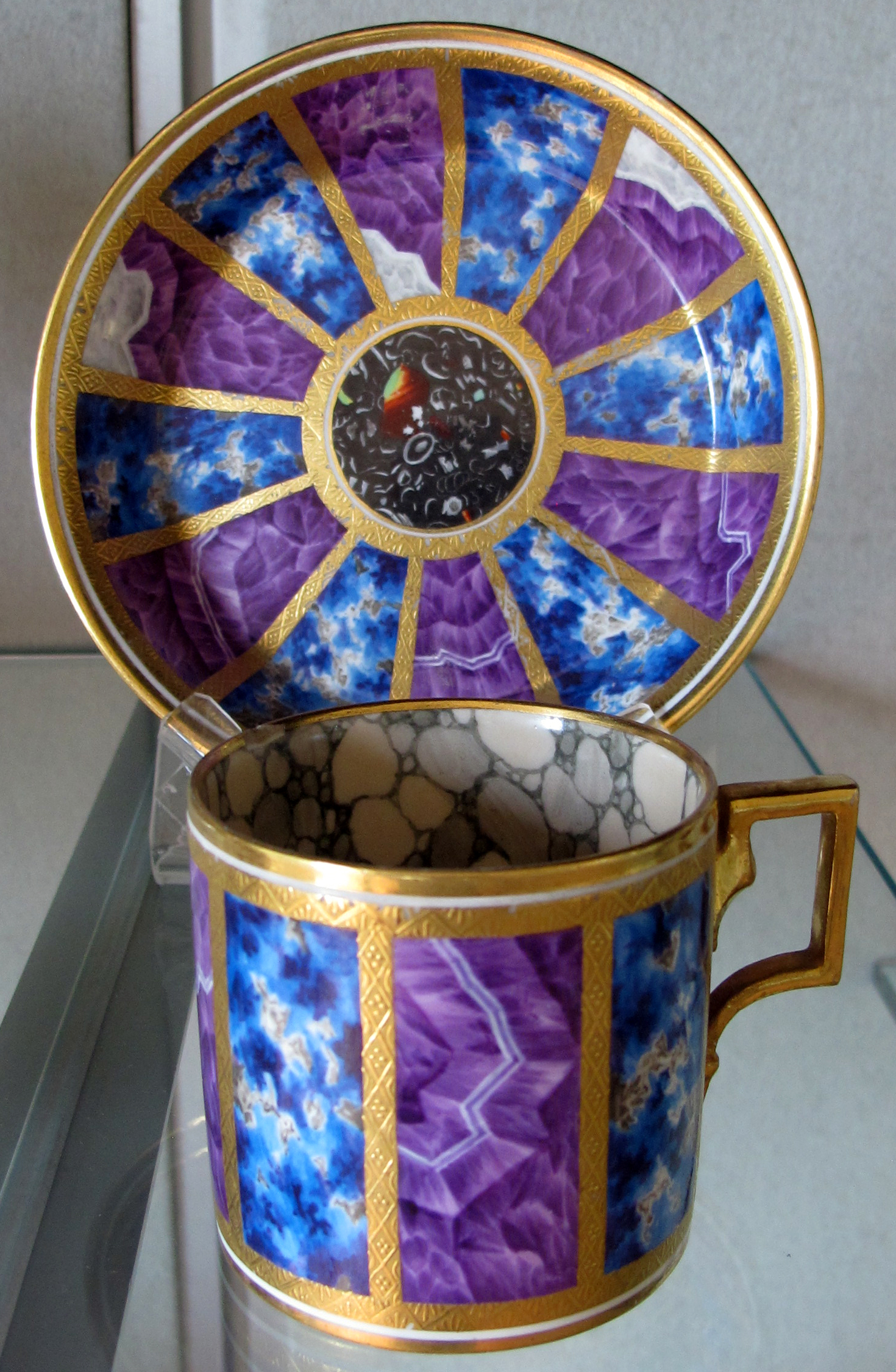 Porcelain Museum (Florence) - Vienna porcelain